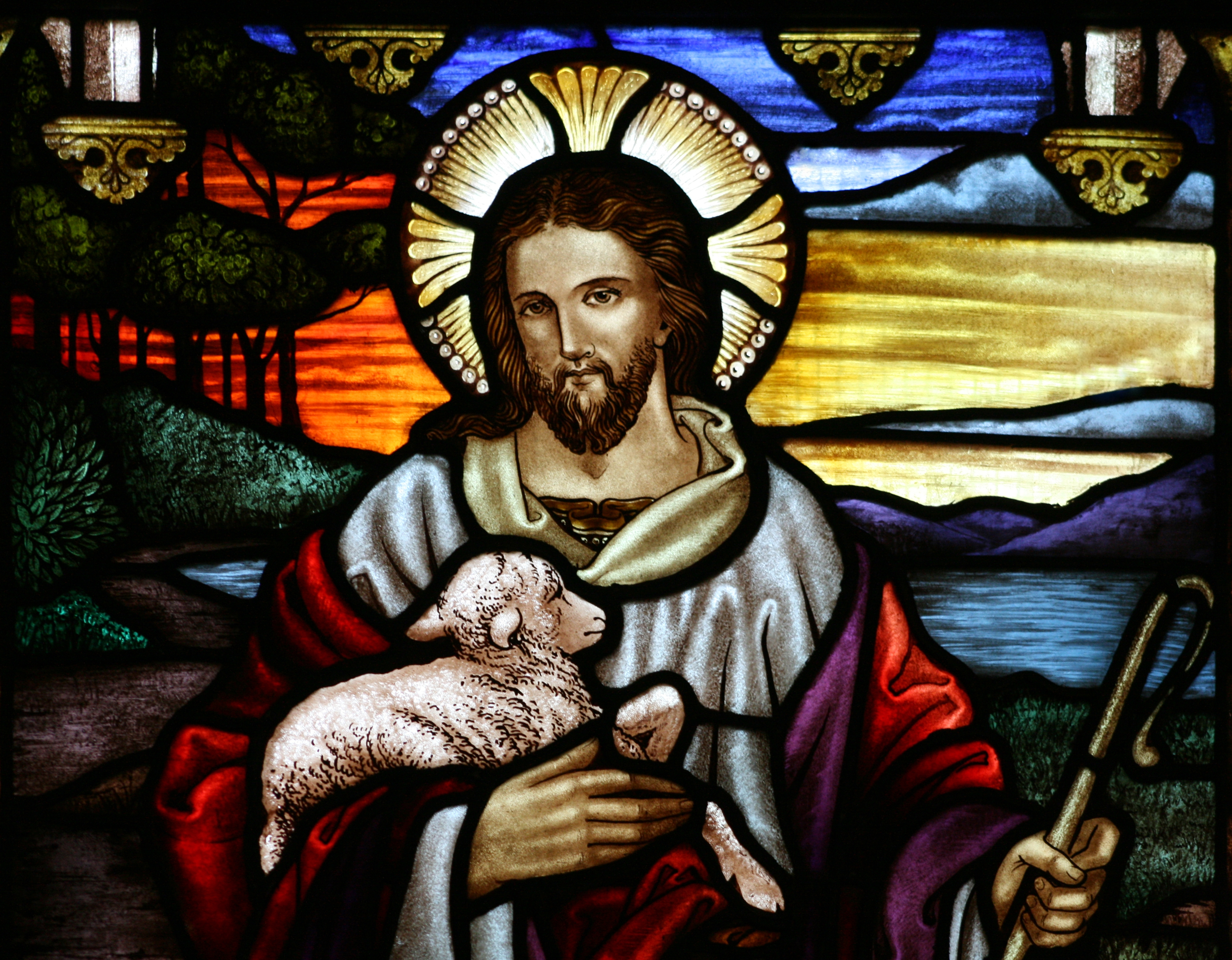 Stained glass at St John the Baptist's Anglican Church [1], Ashfield, New South Wales. Illustrates Jesus' description of himself "I am the Good Shepherd" (from the Gospel of John, chapter 10, verse 11). This version of the image shows a close up of the key features of the scene. The memorial window is also captioned: "To the Glory of God and in Loving Memory of William Wright. Died 6th November, 1932. Aged 70 Yrs."